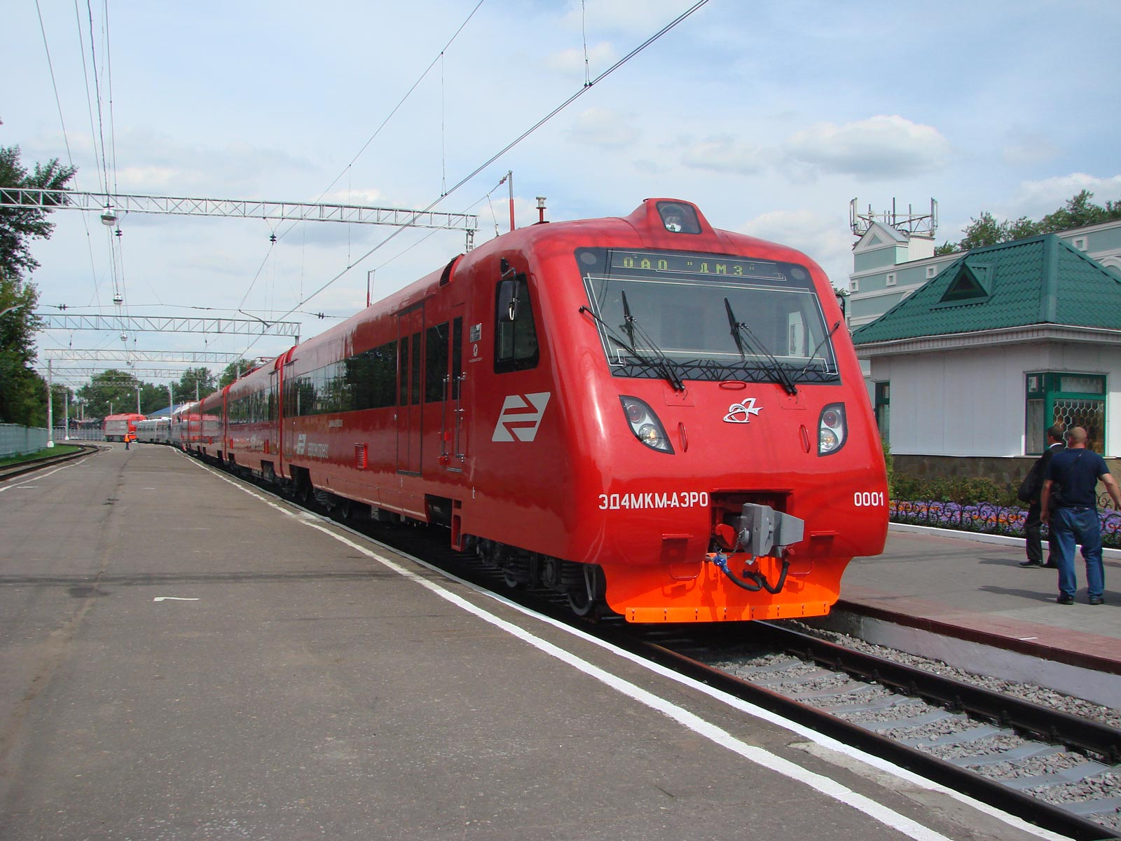 ED4MKM-AERO 0001 EMU. Rizhskiy rail terminal